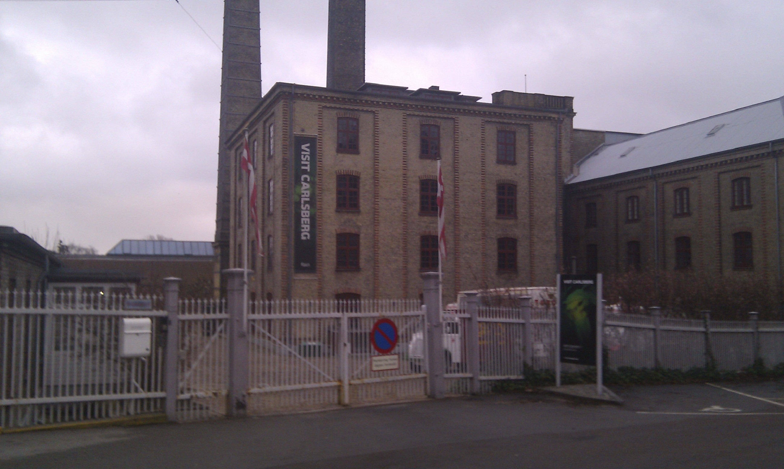 Carlsberg Visit Centre in Copenhagen